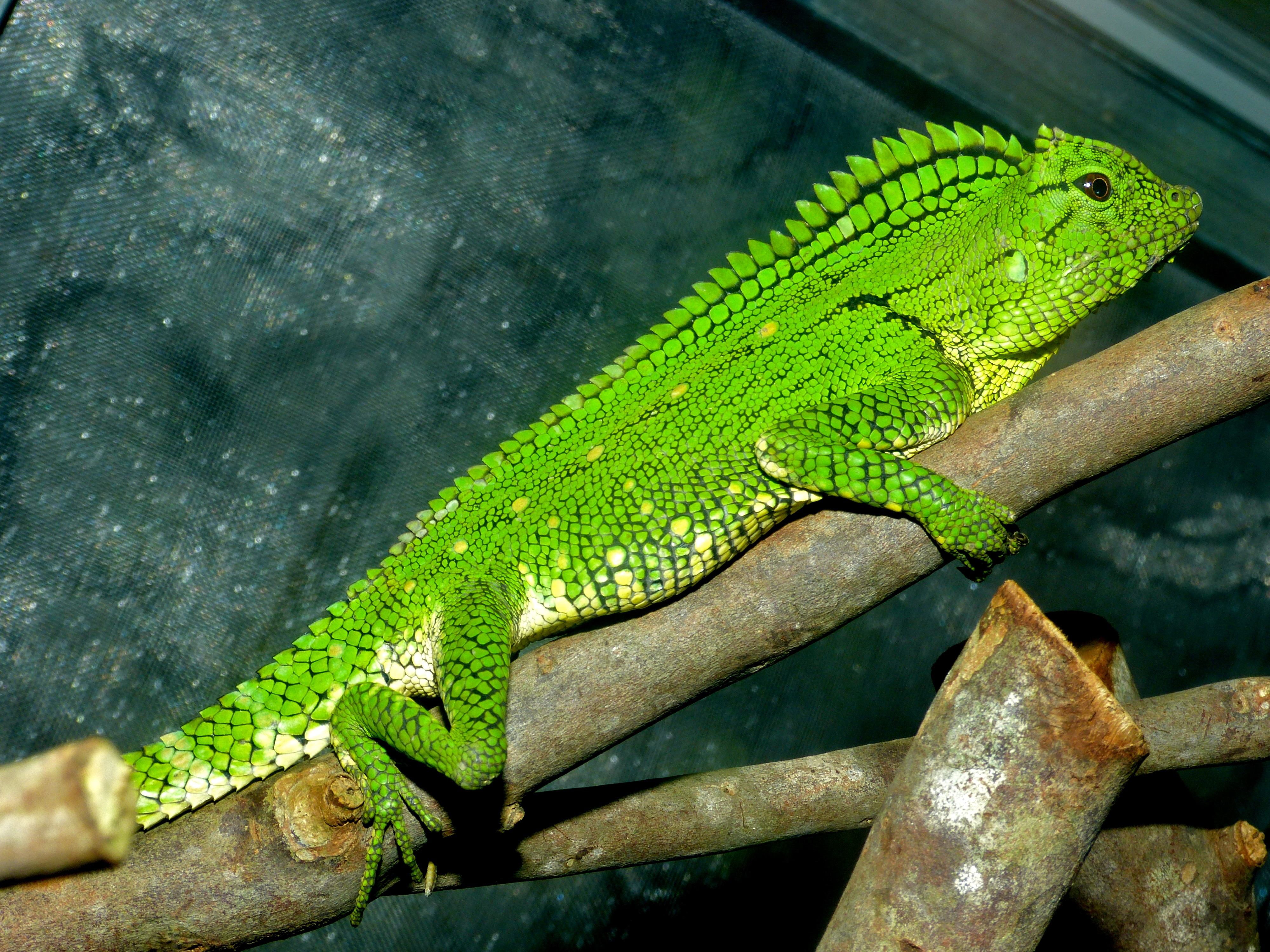 Butterfly Farm, Brinchang, Cameron Highlands, Pahang, MALAYSIA